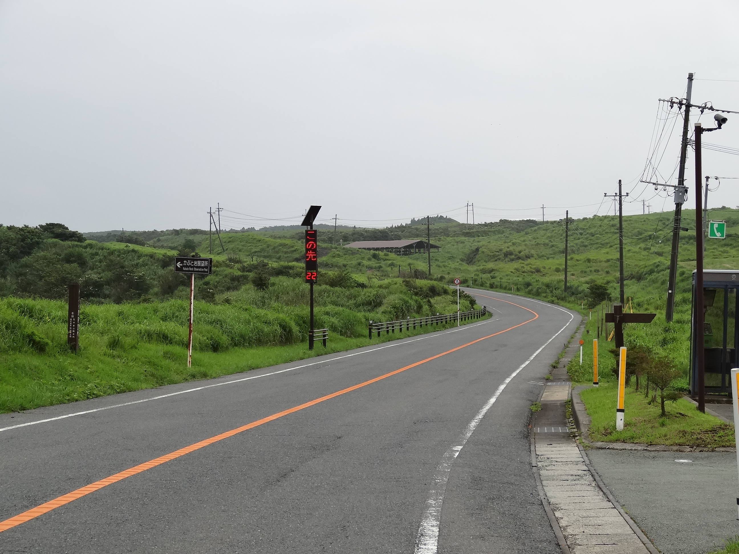 Milk Road (Aso City, Kumamoto, Japan)